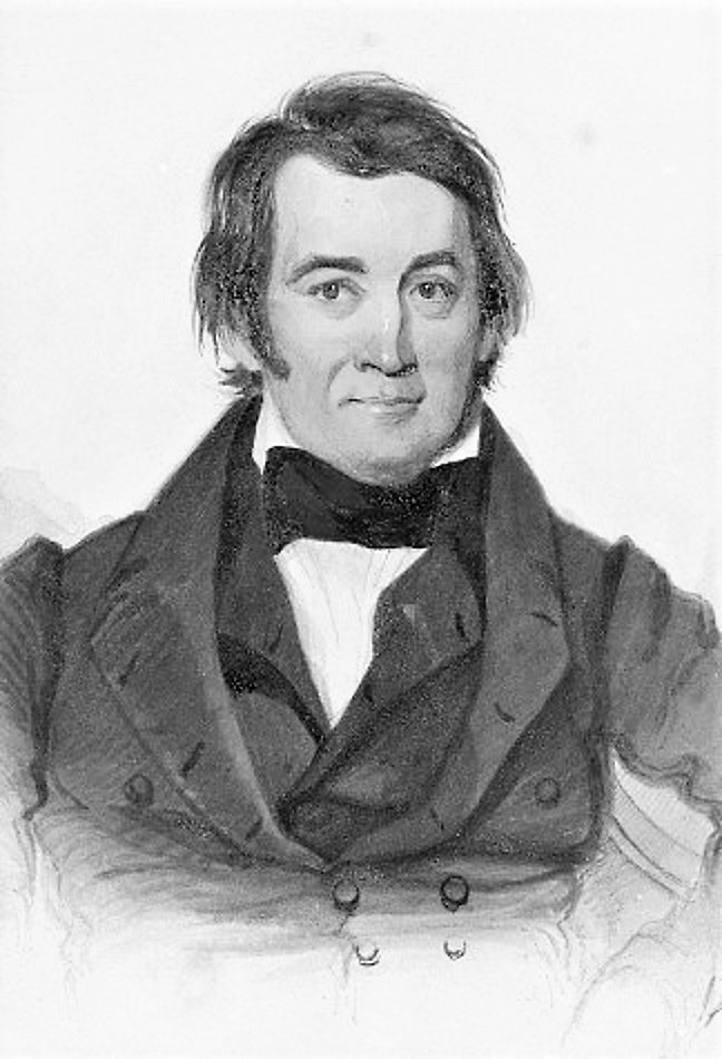 Portrait of Davy Crockett (1786-1836), an American hero, frontiersman, soldier, and politician.